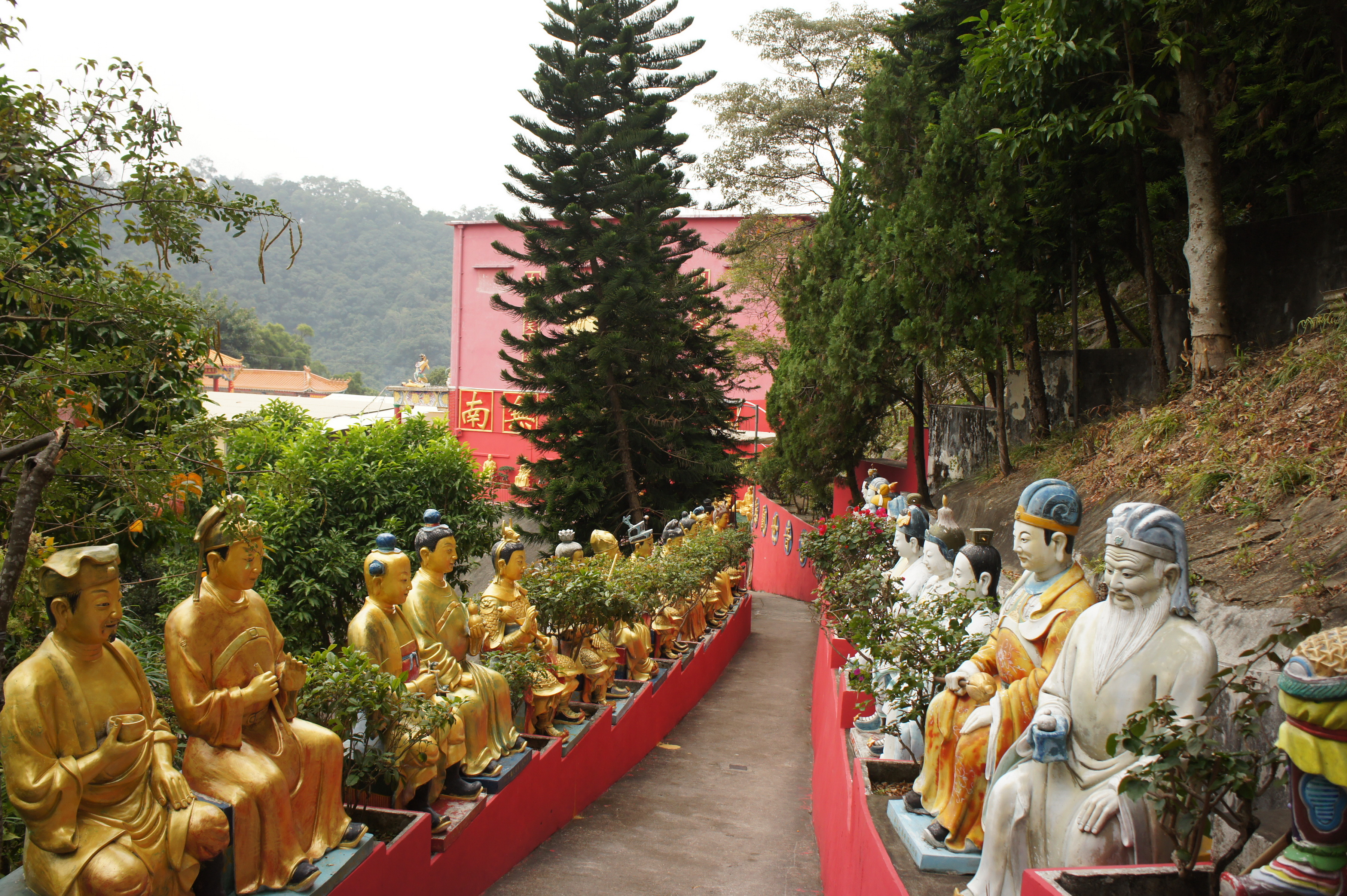 Tai Sui corridor, Ten Thousands Buddhas Monastery, Sha Tin, New Territories